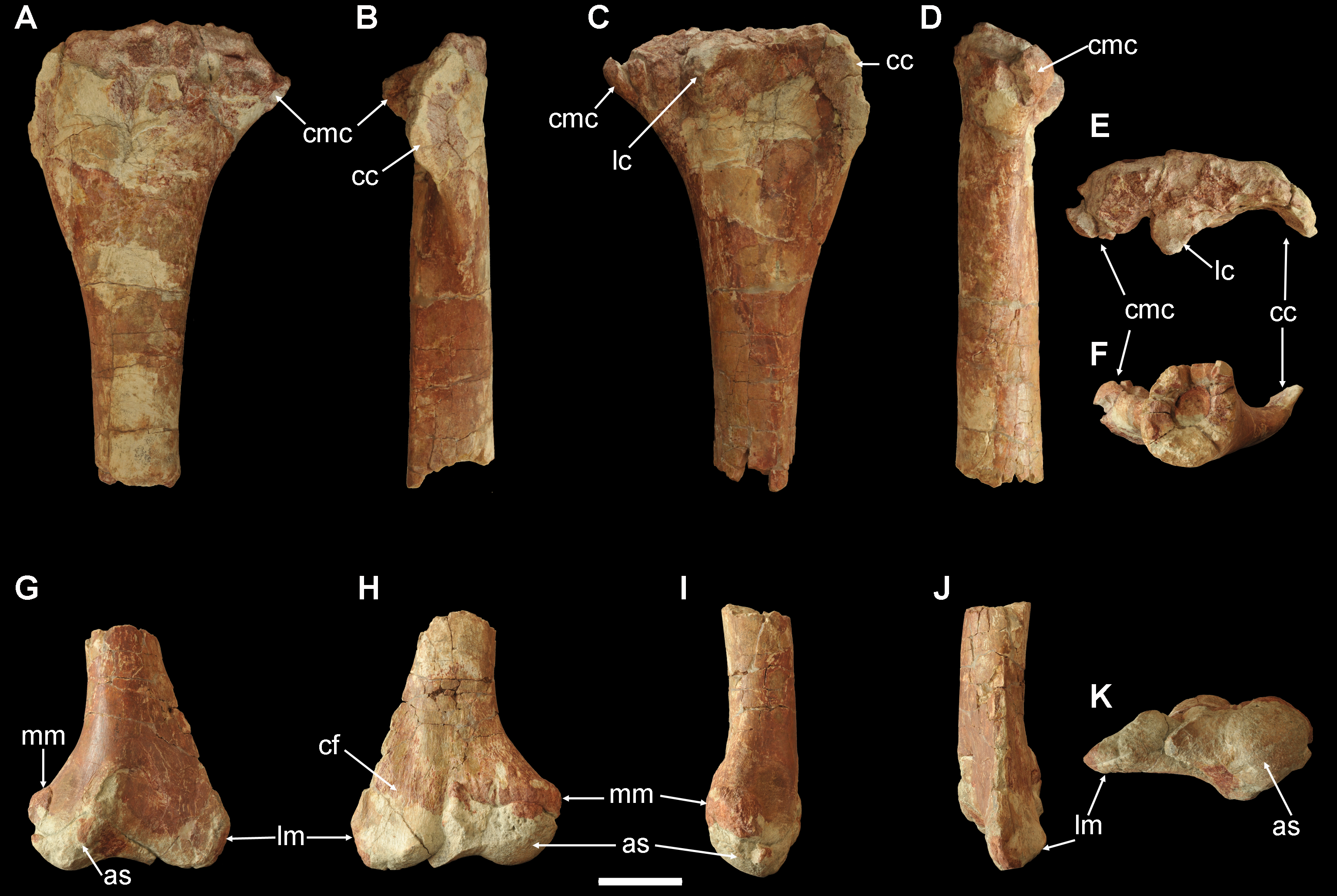 Tibia and astragalus of Yunganglong datongensis (SXMG V 00001). (A–F)-Proximal portion of right tibia in (A) media, (B) cranial, (C) lateral, (D) caudal, (E) proximal, and (F) distal views. (G–K)-Distal portion of left tibia with astragalus in (G) cranial, (H) caudal, (I) medial, (J) lateral, and (K) distal views. Abbreviations: as, astragalus; cc, cnemial crest; cf, concavity for articulation of distal end of fibula; cmc, caudomedial condyle; lc, lateral condyle; lm, lateral malleolus; mm, medial malleolus. Scale bar = 10 cm.